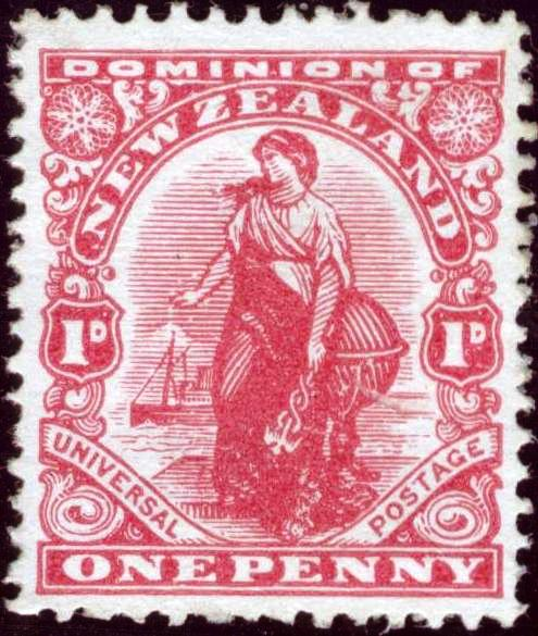 Dominion of New Zealand Penny Universal stamp depicting Zealandia. The design of the Penny Universal was changed in 1909 in recognition that New Zealand was now a Dominion. 1d dominion Two plates of 240 stamps were produced by Perkins Bacon and stamps were issued on 18 November. They were on De la Rue chalk surfaced paper with watermark NZ and star and perforation 14x15. The stamps were replaced by the King George V Field Marshall in November 1926.